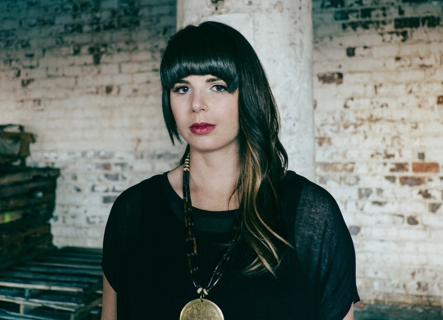 Photo of Americana musical artist Beth Bombara